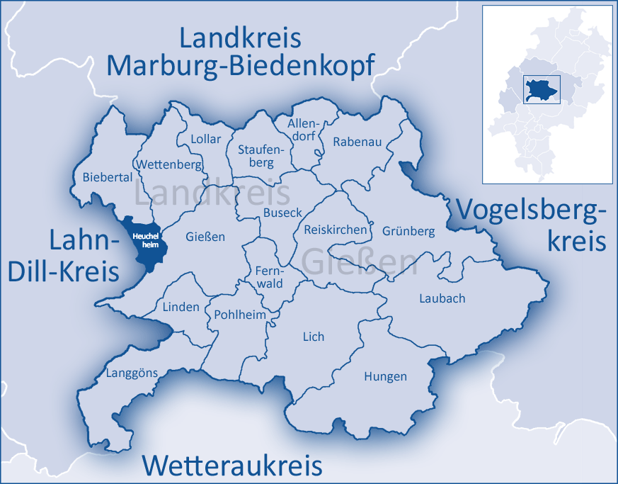 The map shows a district in the area of Gießen (district)